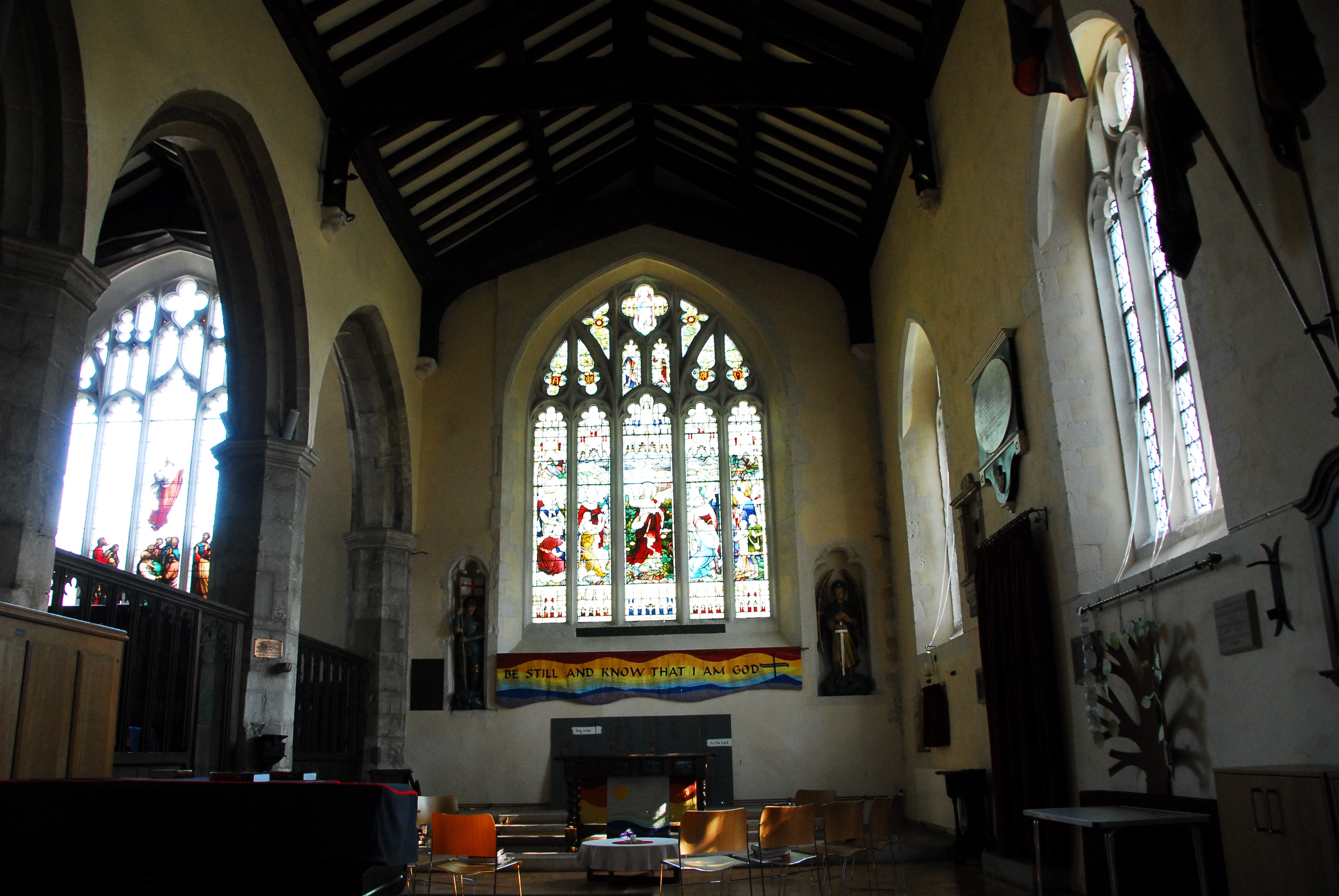 Church of St Lawrence, Alton. Chapel of St Michael and St George